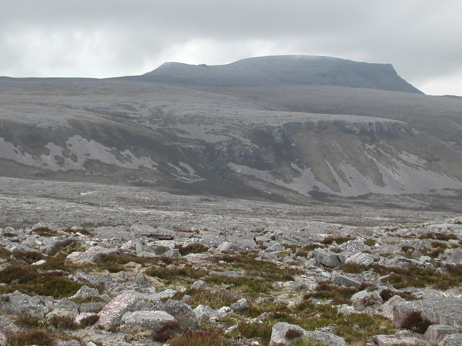 Taken by me, released to public domain (and mis-labelled; it's actually taken from the east)